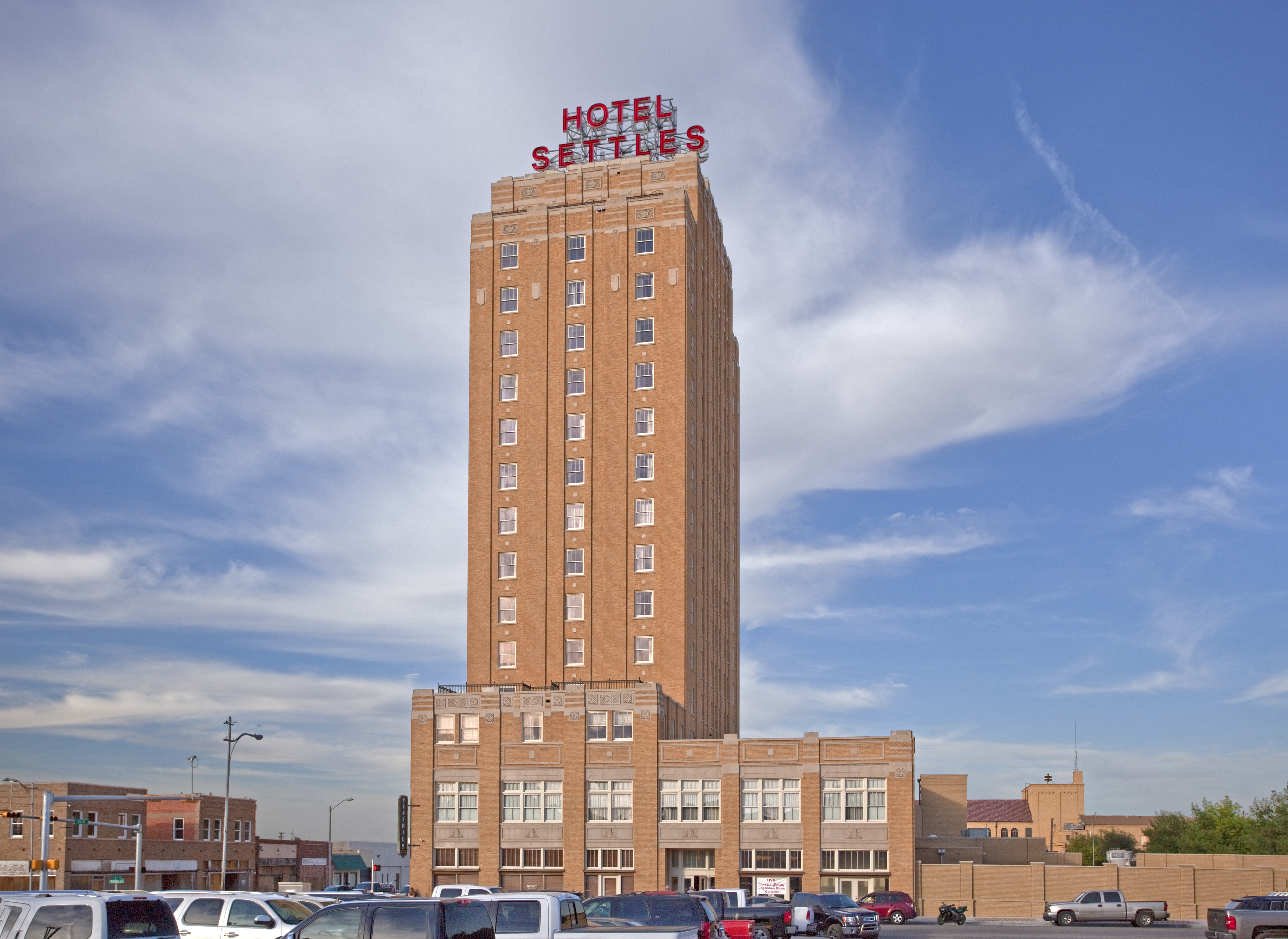 The newly refurbished Settles Hotel in Big Spring, Texas.